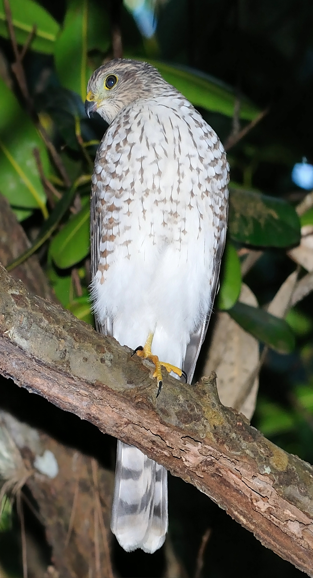 A juvenile Puerto Rican Sharp-shinned Hawk